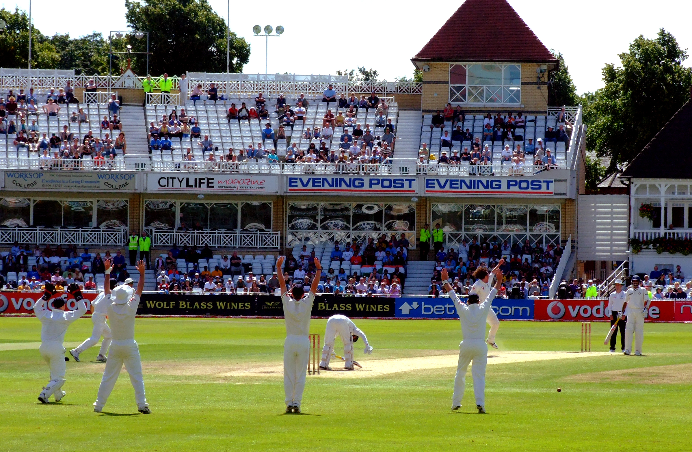 5th Day, 2nd Test: England v India at Trent Bridge, Nottingham, 31st July 2007